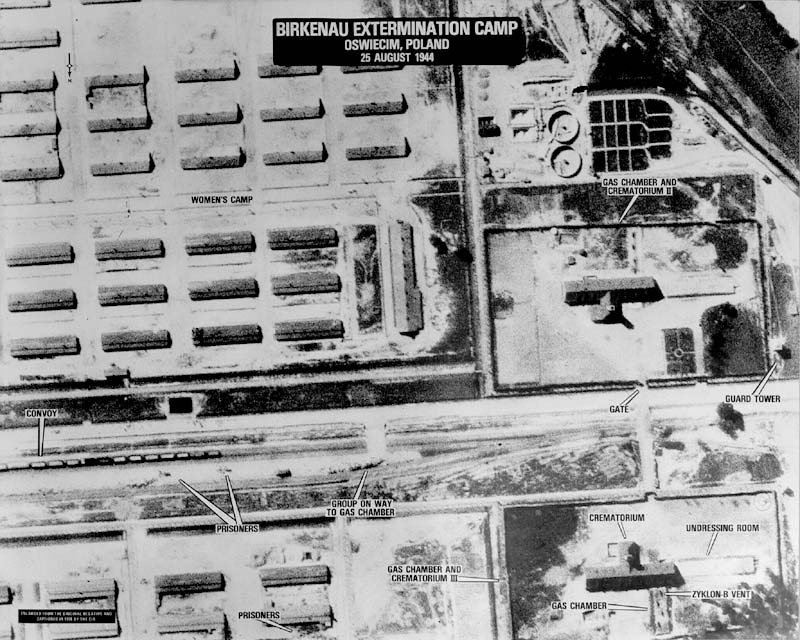 An enlargement of part of a photo of Auschwitz-Birkenau taken by a Mosquito plane from the South African Air force’s 60 Photo Reconnaissance Squadron (Sortie no. 60PR/694) under the command of the U.S. Airforce. The selection process of a recently arrived transport visible on the ramp has been completed, and those selected to die are being to taken to Crematorium II. Also visible is a cultivated garden in the courtyard of Crematorium II, the open gate into it, and Crematorium III. The basement undressing rooms and gas chambers of both complexes can also be seen. This annotated image was released by the Central Intelligence Agency in 1979.